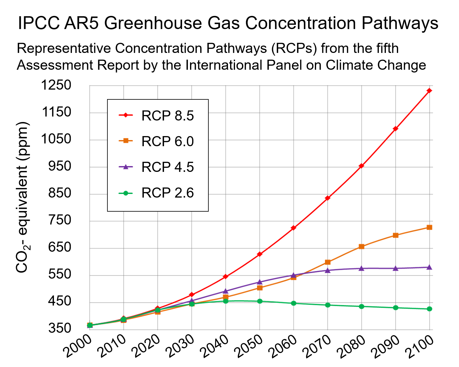 All forcing agents' atmospheric CO2-equivalent concentrations (ppm).[1]